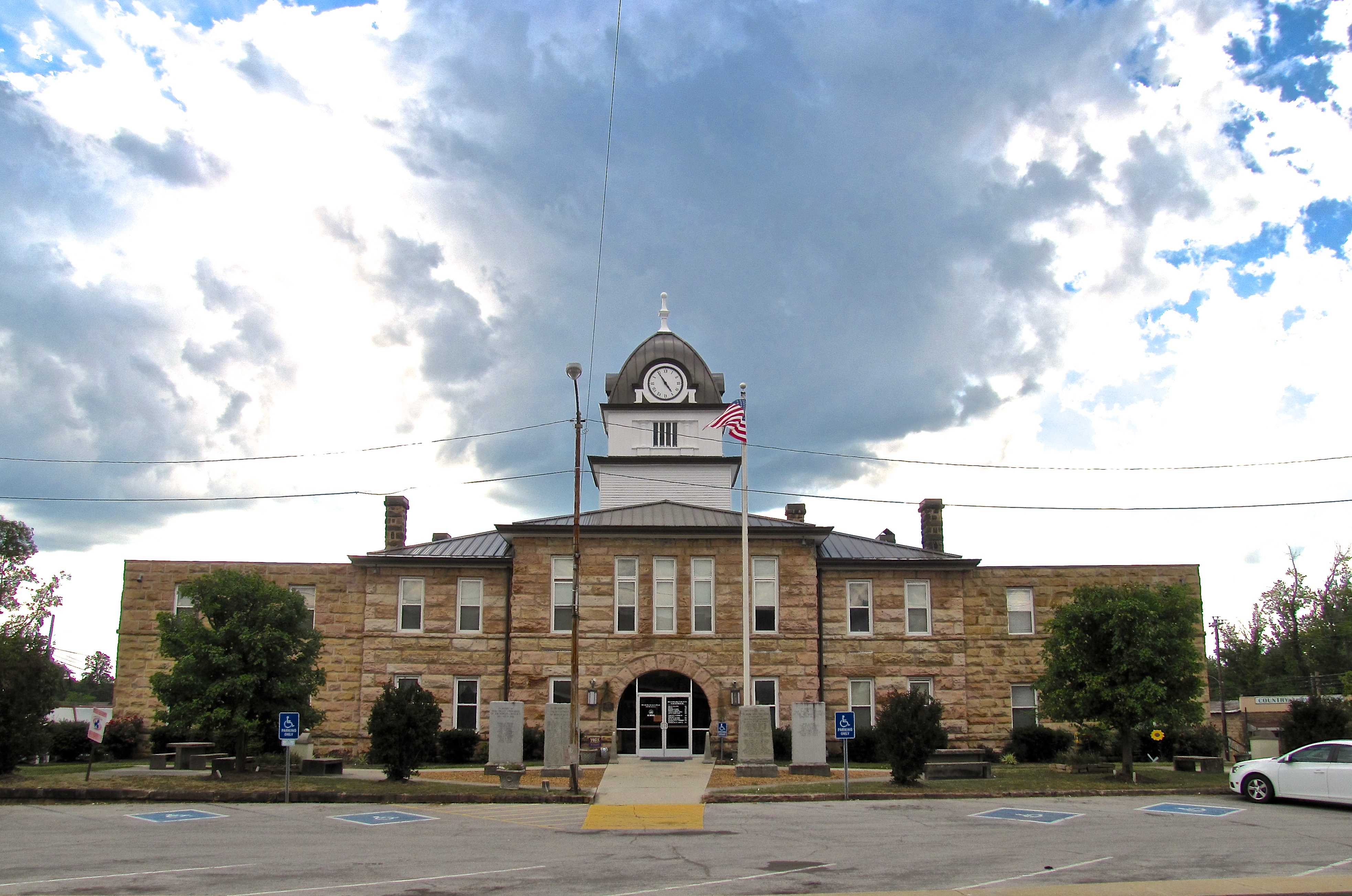 The Fentress County Courthouse in Jamestown, Tennessee, United States, viewed from the east.